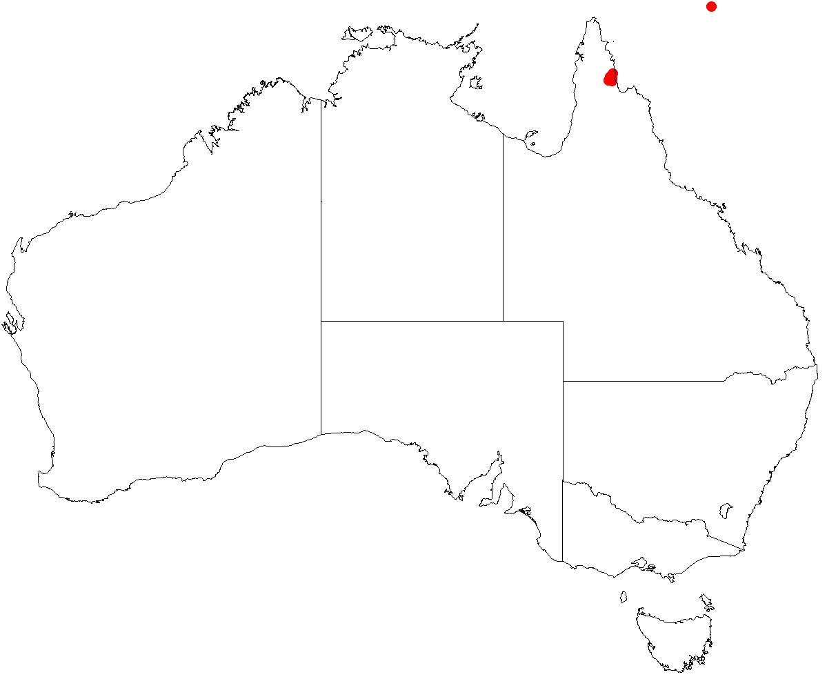 Australian distribution of Amyema seemeniana based on download from Australasian Virtual Herbarium May 9, 2018